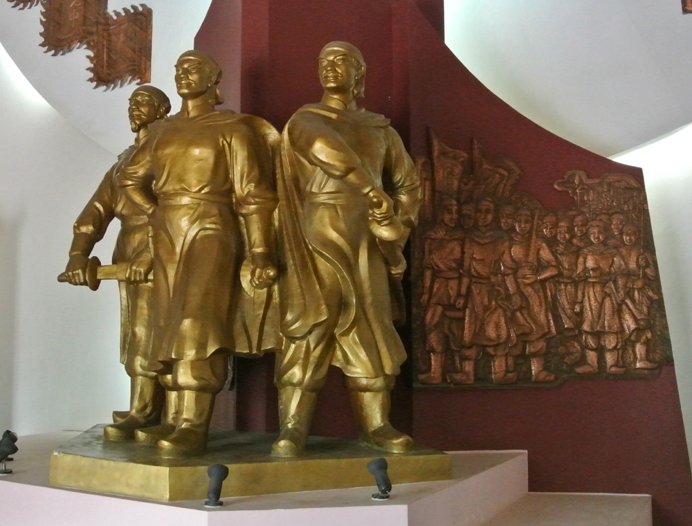 Statue of Ngyuen 3 brothers stands Emperor QuangTrung museum in TaySon district BinhDinh province VietNam